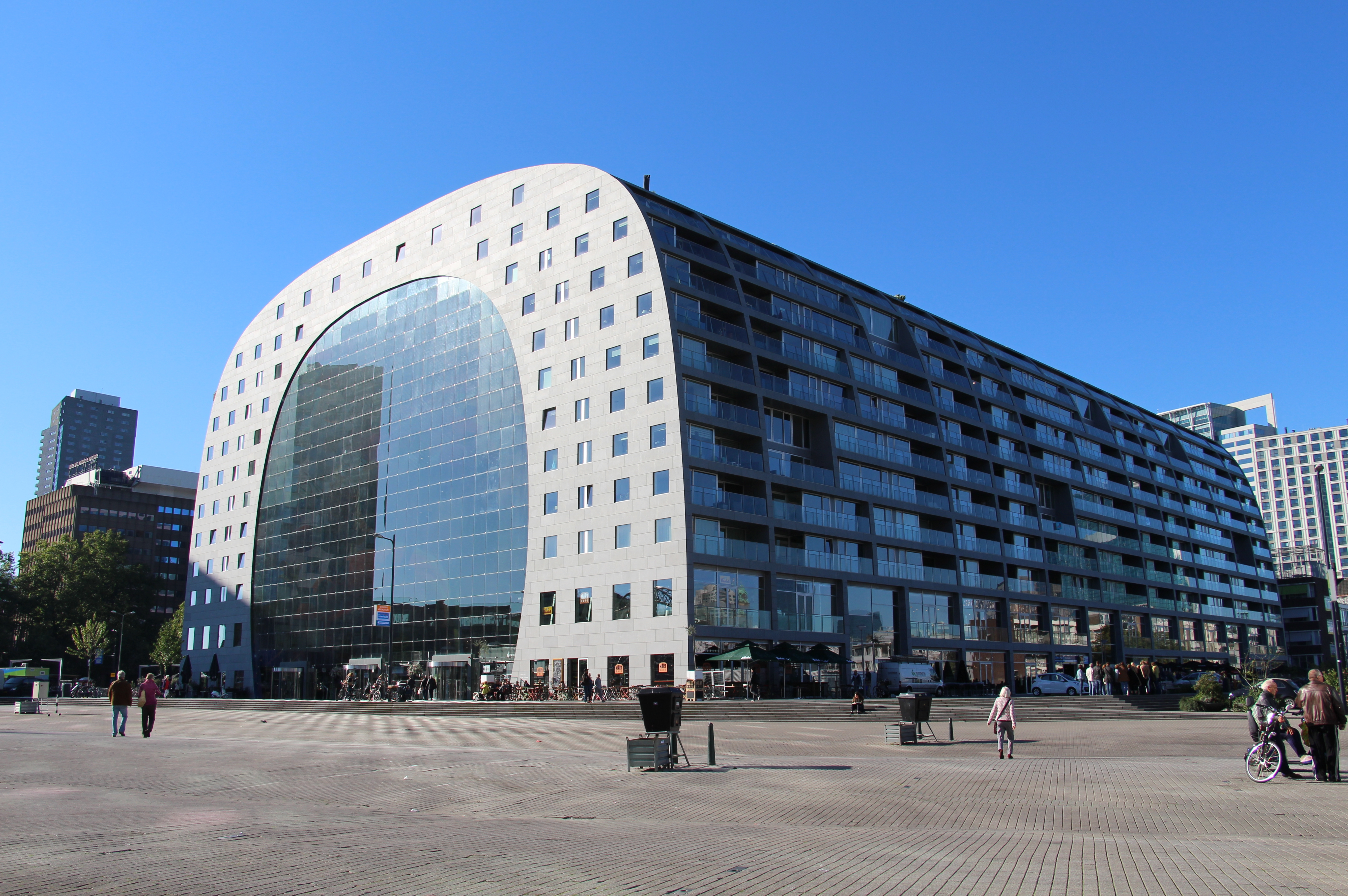 Stadsdriehoek. Dominee Jan Scharpstraat The Market Hall consist of an enormous enclosed market floor on street level surrounded by restaurants, shops and apartments. The uniqueness of the design can be found not only in its size and shape, but mainly in the way the different functions have been brought together. No where on earth can you find this combination of a fresh food market, food stores, restaurants, a supermarket, apartments, a permanent exhibition and a public parking garage under one roof. Arch. MVRDV 2009-14.